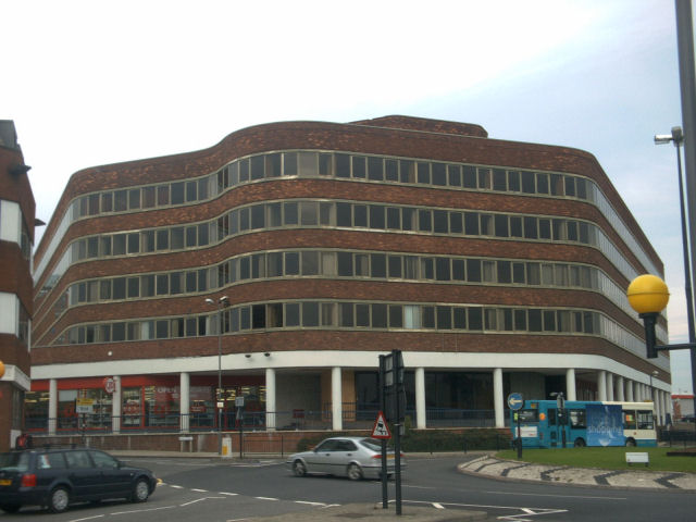 The former Xerox building in Aylesbury High Street